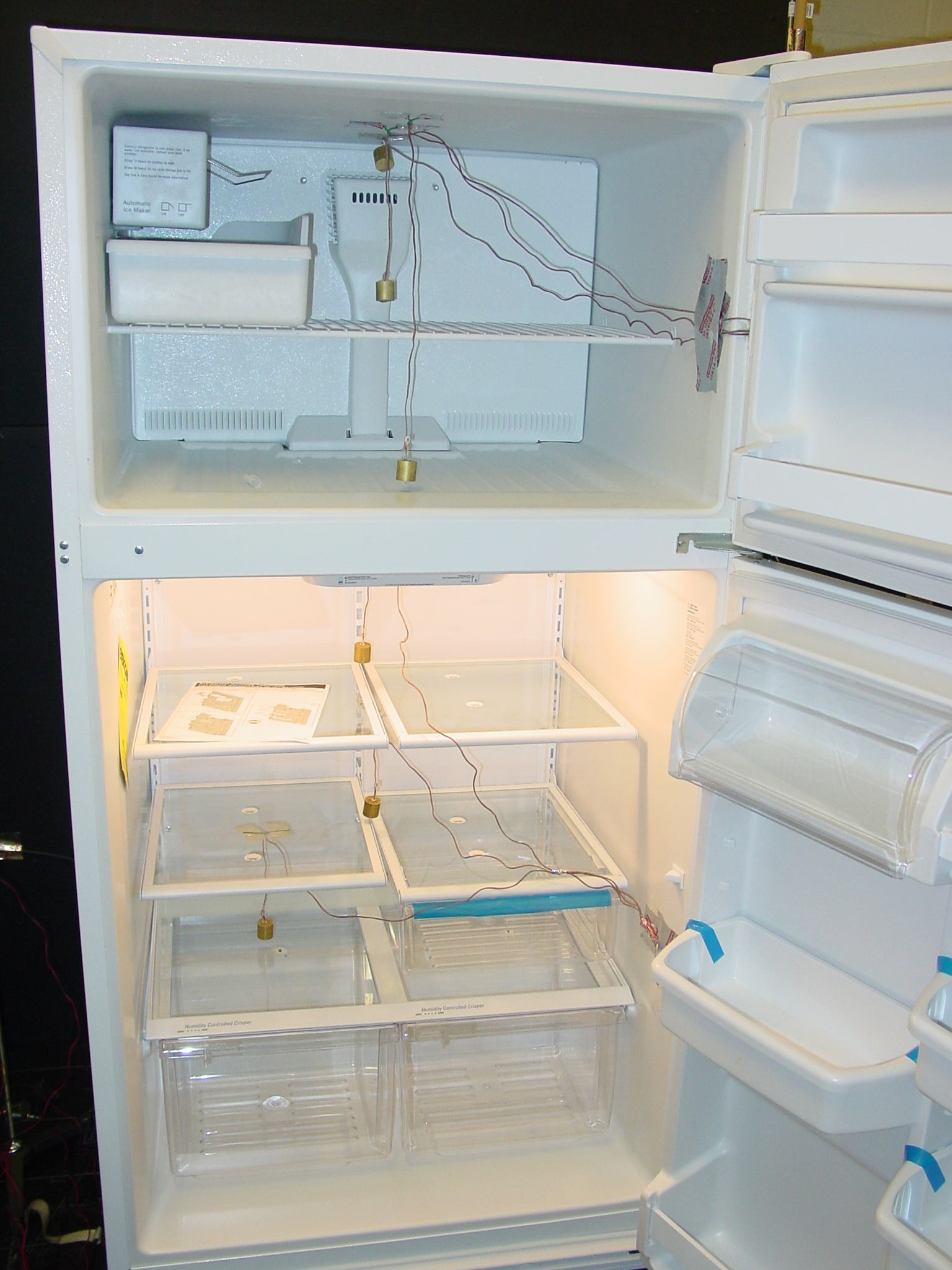 One of four types tested by NIST researchers, this top-mount refrigerator freezer was outfitted with three thermocouples in each compartment, sampling the temperature every 30 seconds. In all units tested, electric heaters used to free ice from molds accounted for about three-quarters of ice-maker energy consumption. Credit: NIST Disclaimer: Any mention of commercial products within NIST web pages is for information only; it does not imply recommendation or endorsement by NIST. Use of NIST Information: These World Wide Web pages are provided as a public service by the National Institute of Standards and Technology (NIST). With the exception of material marked as copyrighted, information presented on these pages is considered public information and may be distributed or copied. Use of appropriate byline/photo/image credits is requested.